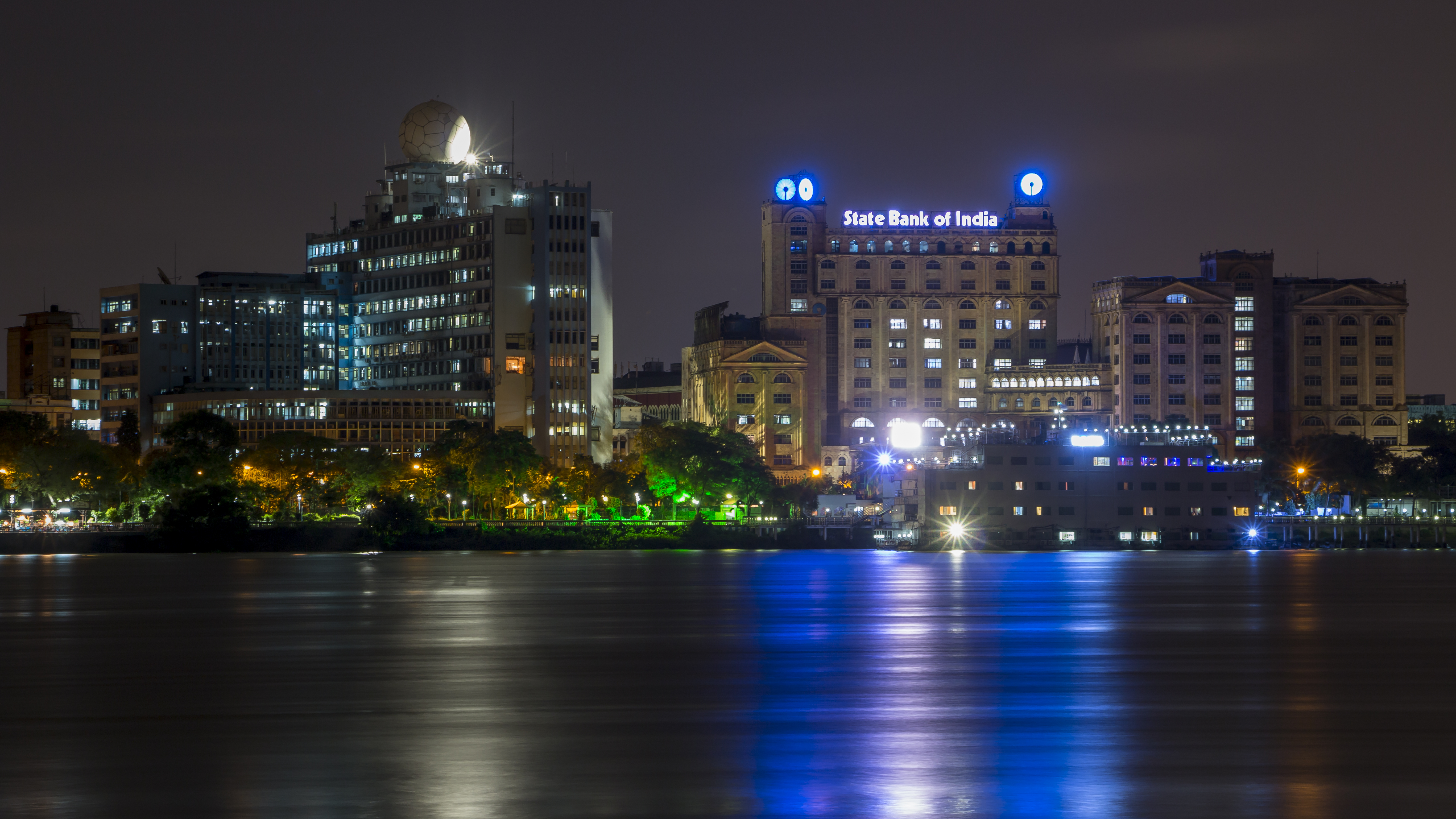 A view of the New Secretariat (left) and State Bank of India (right) buildings at night from across the Hooghly river